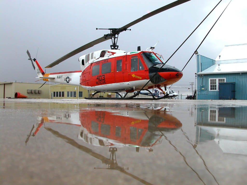 U.S. Navy Search and Rescue Bell HH-1N Twin Huey from NAS China Lake parked at the Mojave Airport.